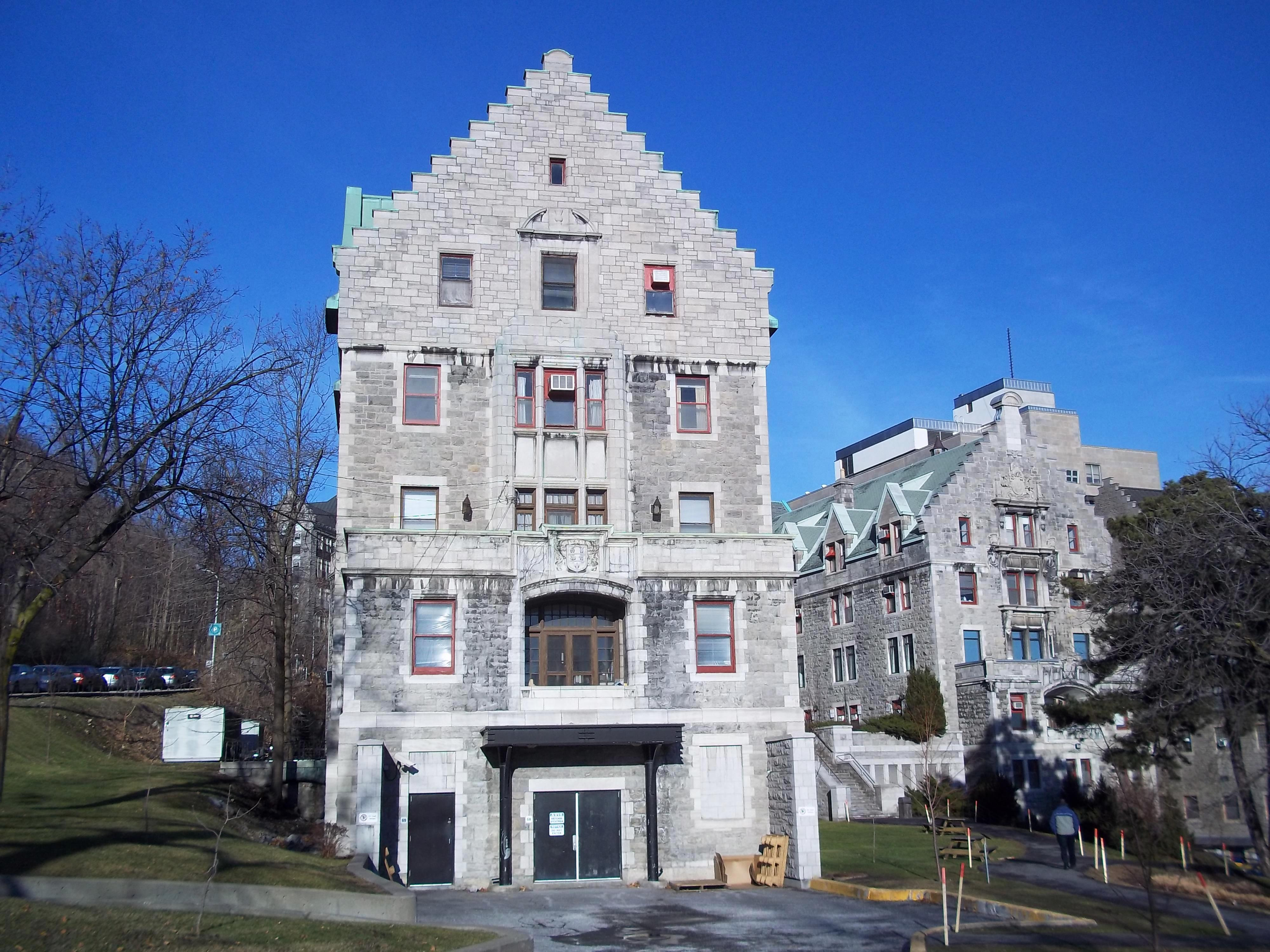 General view of the Hersey Pavilion National Historic Site of Canada, showing the location in an institutional setting as a component of the Royal Victoria Hospital in Montréal.